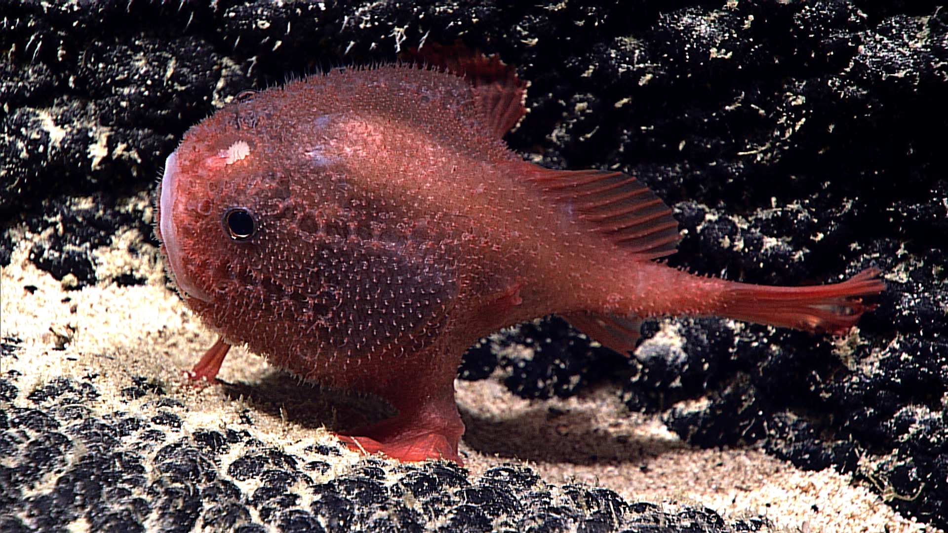 A sea toad (Chaunacops cf. melanostomus). Image ID: expn5851, Voyage To Inner Space - Exploring the Seas With NOAA Collect Location: Hutchinson Seamount area, Southernmost Cone Photo Date: 20150920T224543Z Credit: NOAA Office of Ocean Exploration and Research, 2015 Hohonu Moana